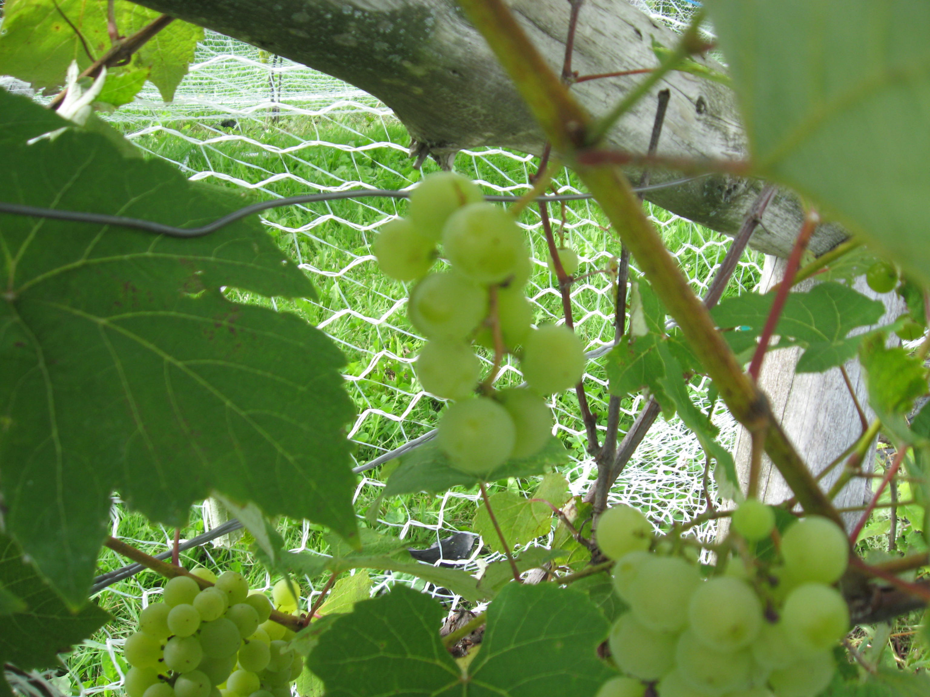 "Louise Swenson" hybrid grapes